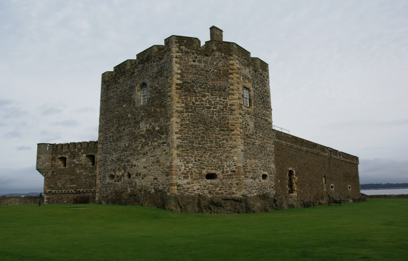 Blackness Castle, Falkirk, Scotland.